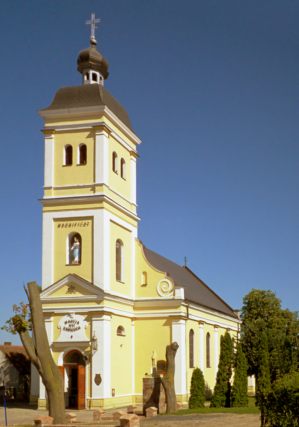 Szamocin; parish church